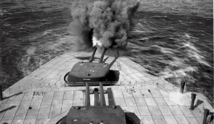 Battery Marshall firing during annual target practice on August 6, 1935. Note oil drip pans under Battery Wilson's two 14-inch guns.